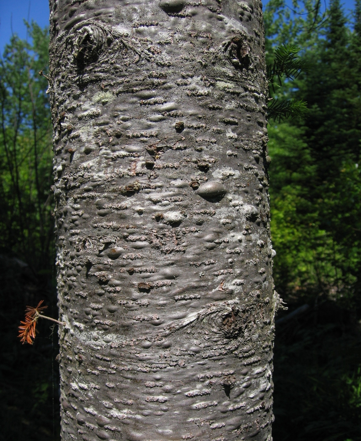 Abies balsamea bark, on young tree 15 cm diameter.